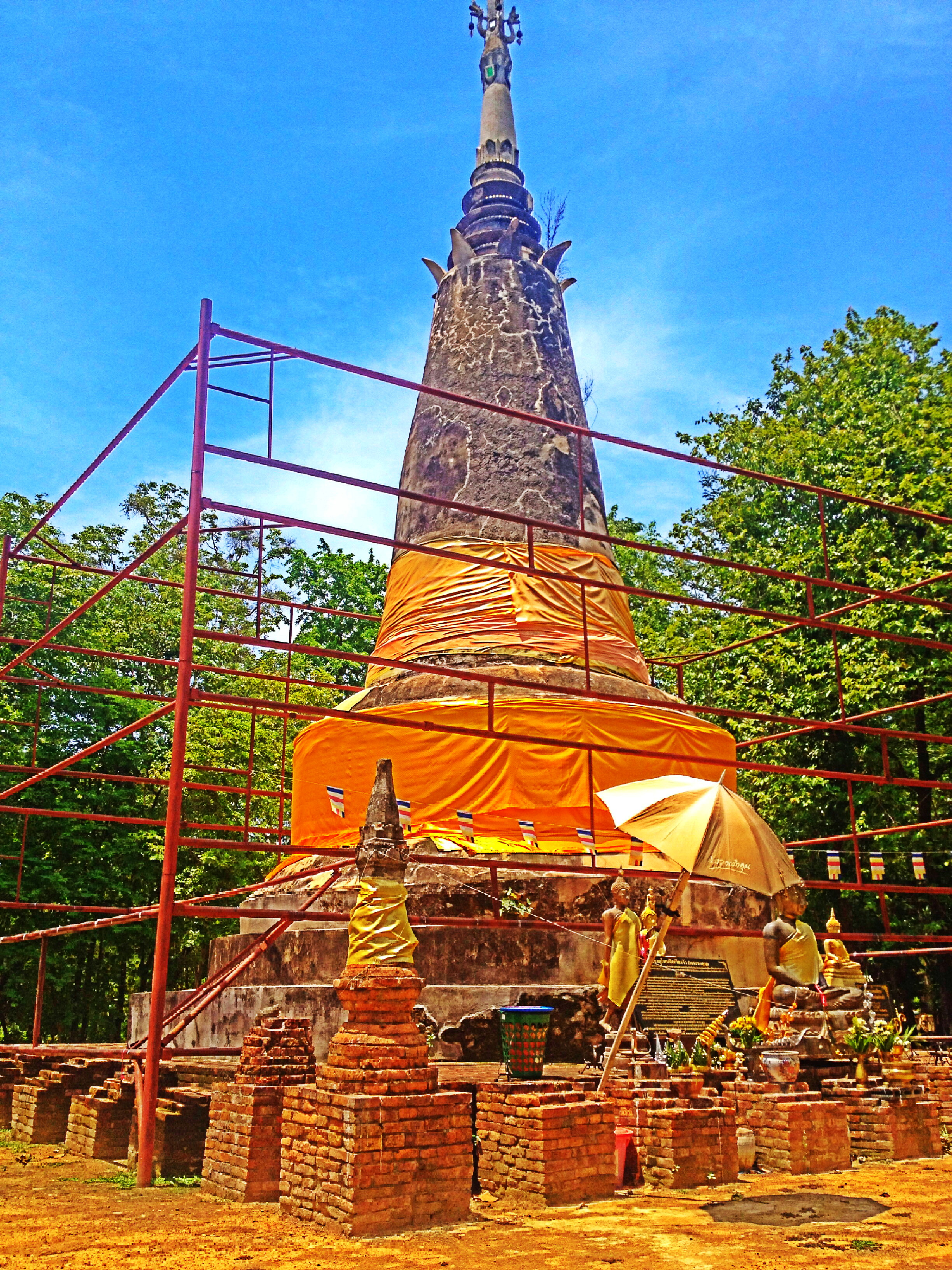 Phra That Phone Jik Wiang Ngua, located at Phra That Bu Temple, Kok Pa Fang Village, Pa Co Sub-district, Muang District, Nong Khai Province, Thailand.